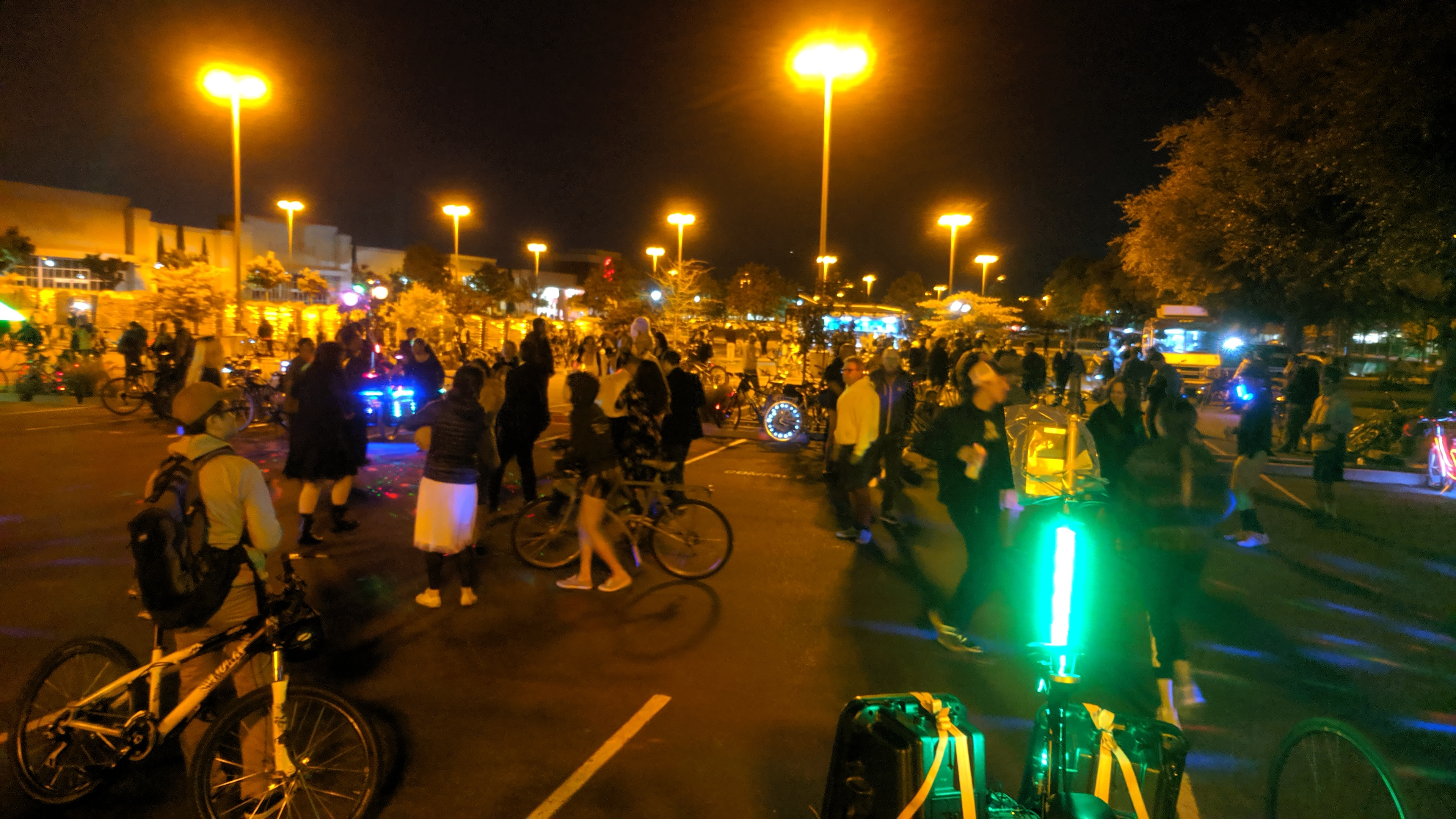 On the May 17, 2019 ride, the San Jose Bike Party group takes a break at a Regroup Point in South San Jose. Food trucks are visible in the background which are commonly seen at the start and regroup points when at locations where parking is available.